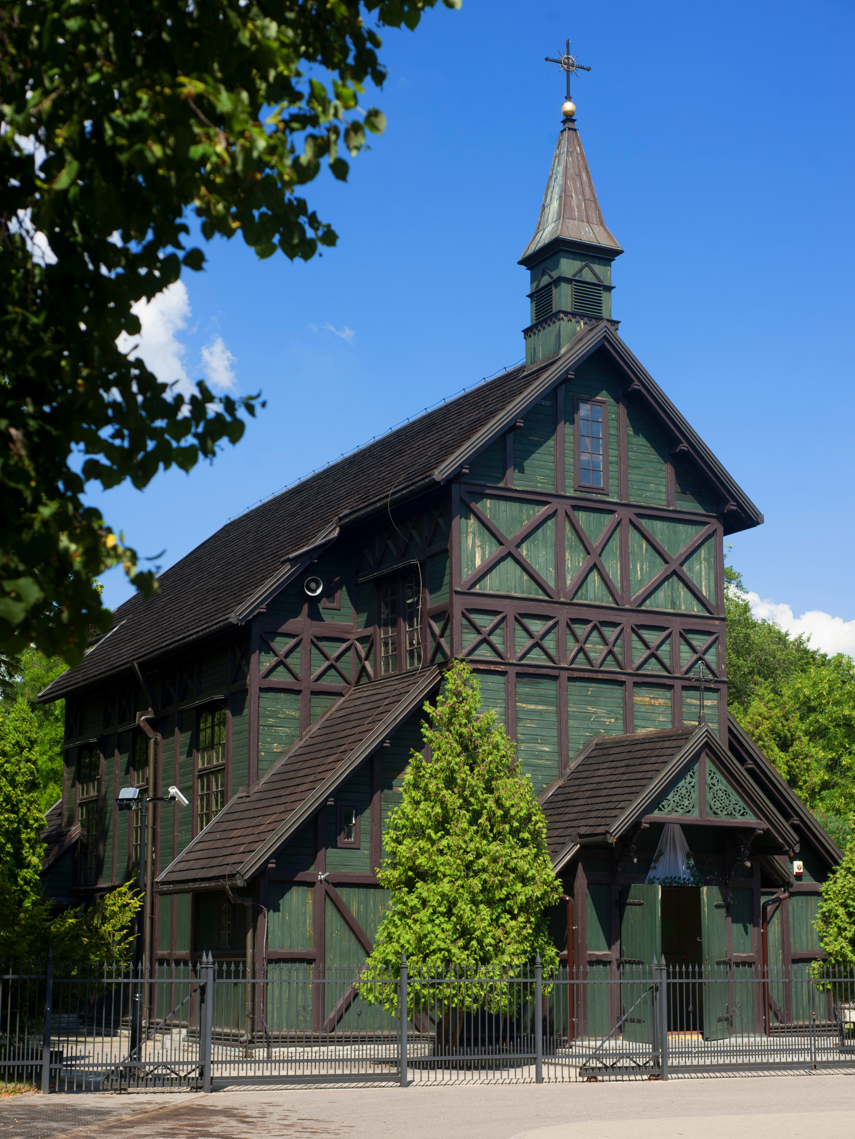 Church of St. Vincent de Paul on Bródno Cemetery